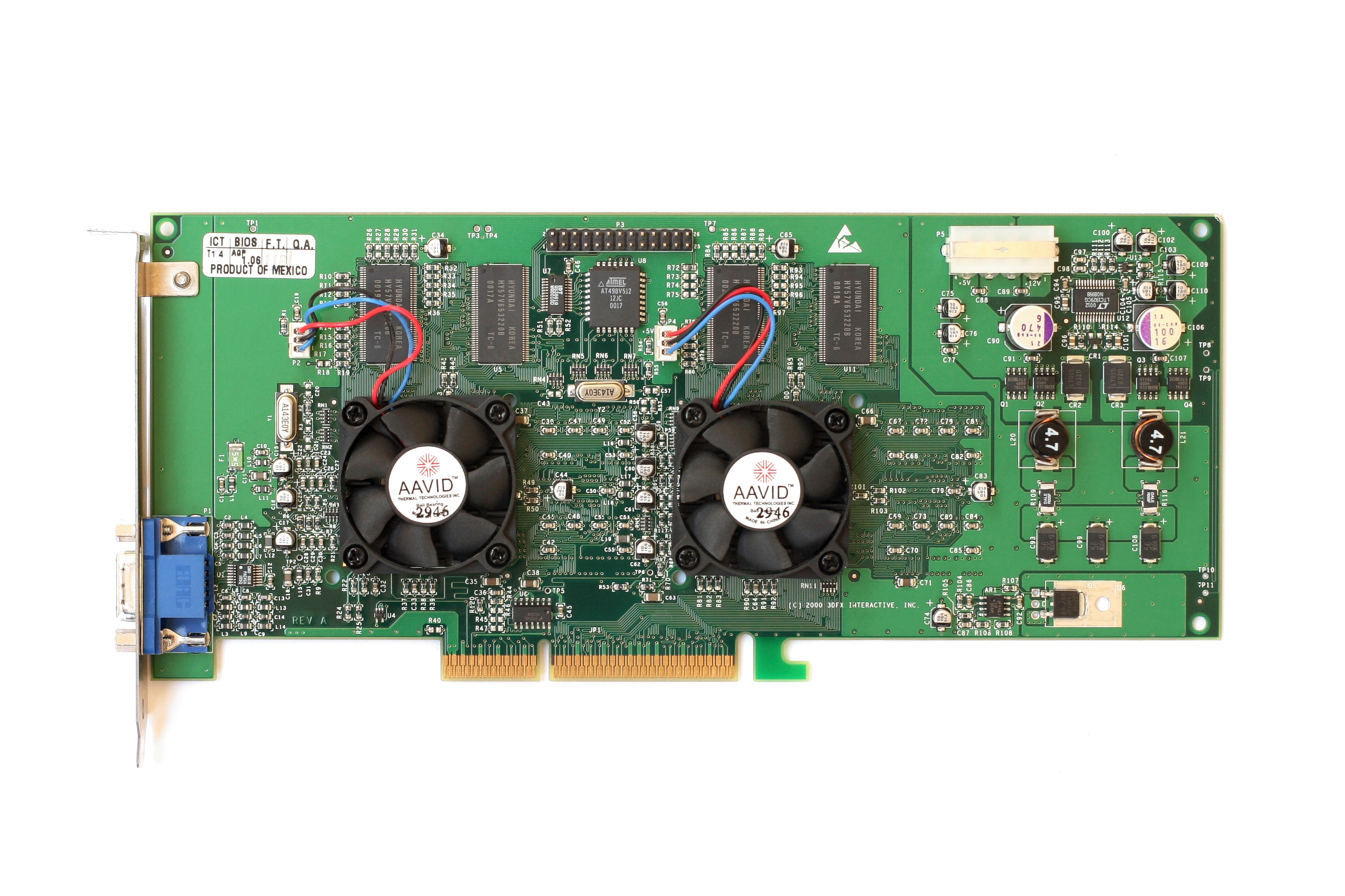 Video card 3Dfx Voodoo 5 5500 (2x 3Dfx VSA-100)